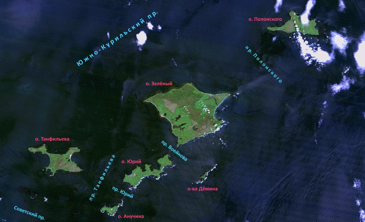 Straits of the Habomai Islands on the satellite image (in Russian)